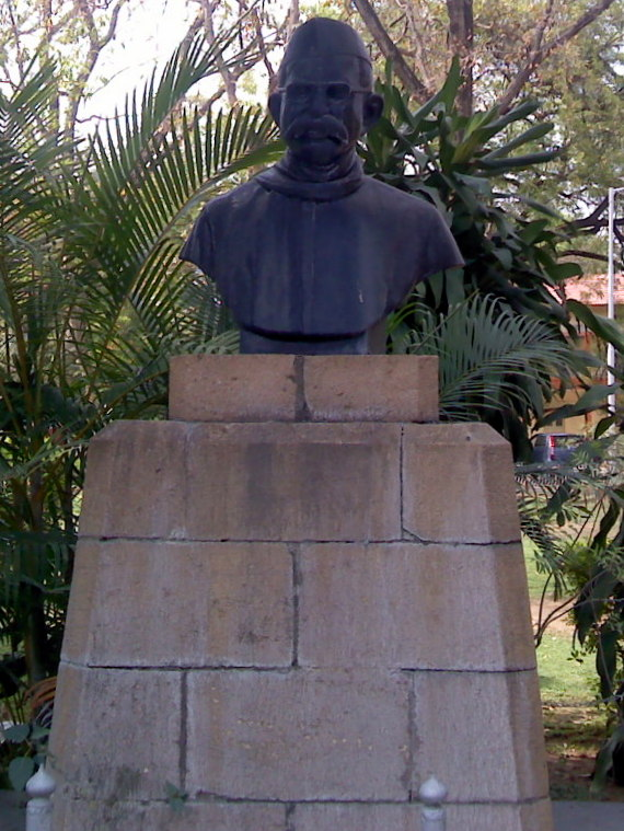 Bust of Ravishankar Shukla, the first chief Minister of Madhya Pradesh, at Ravi Bhavan, Nagpur.